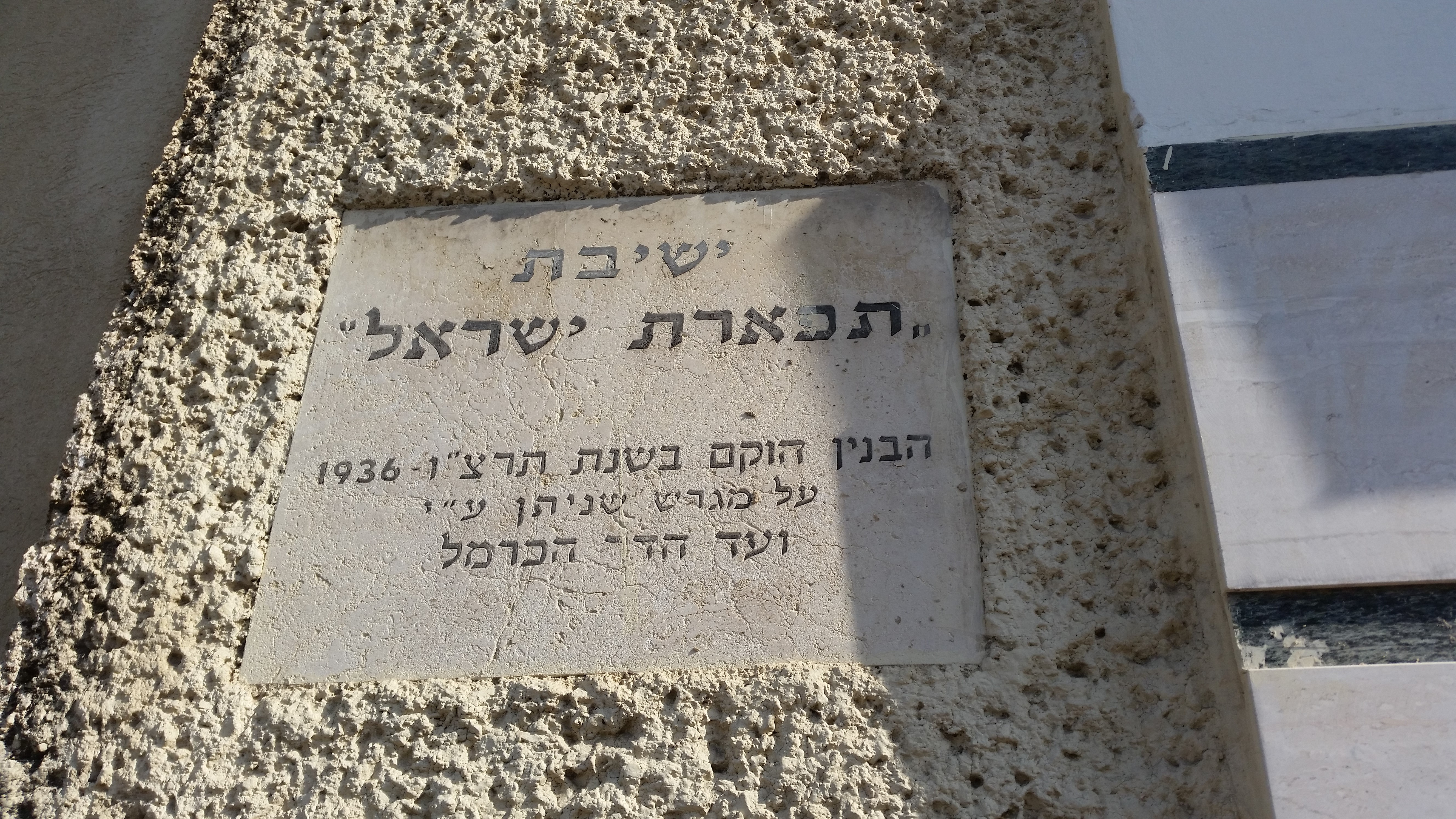 'Tiferet Israel' Yeshiva in Haifa, Israel.